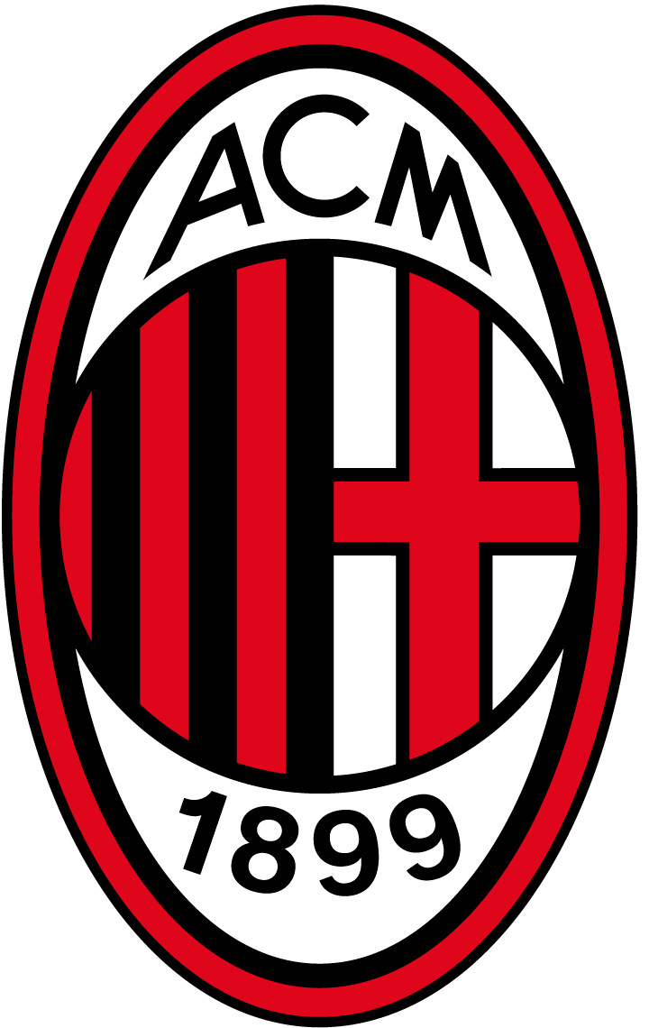 Logo of A.C. Milan